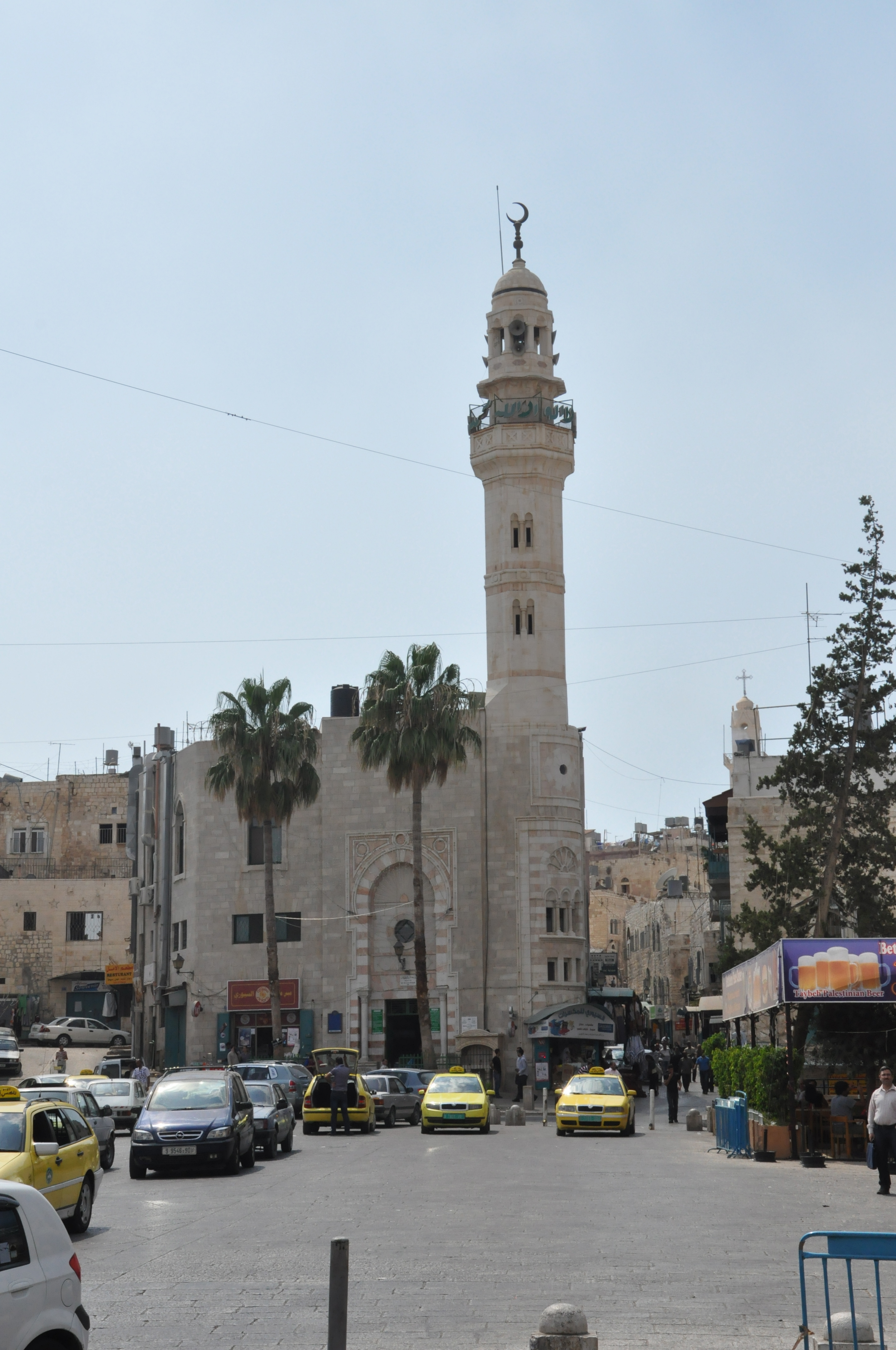 Photos taken in August 2012 on a visit to the Palestinian town of Bethlehem